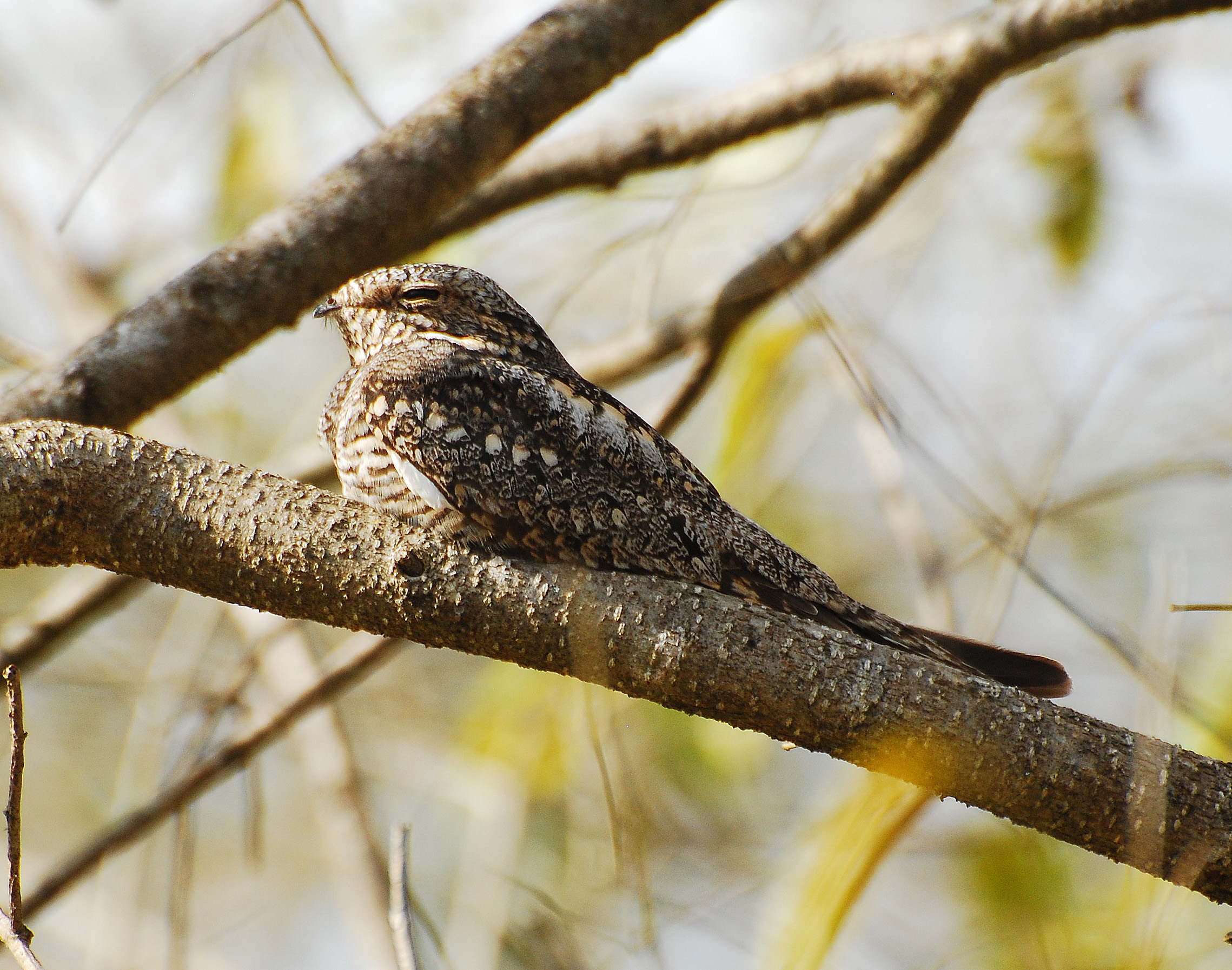 Lesser Nighthawk at La Ensenada, Costa Rica, 080222. Chordelies acutipennis.